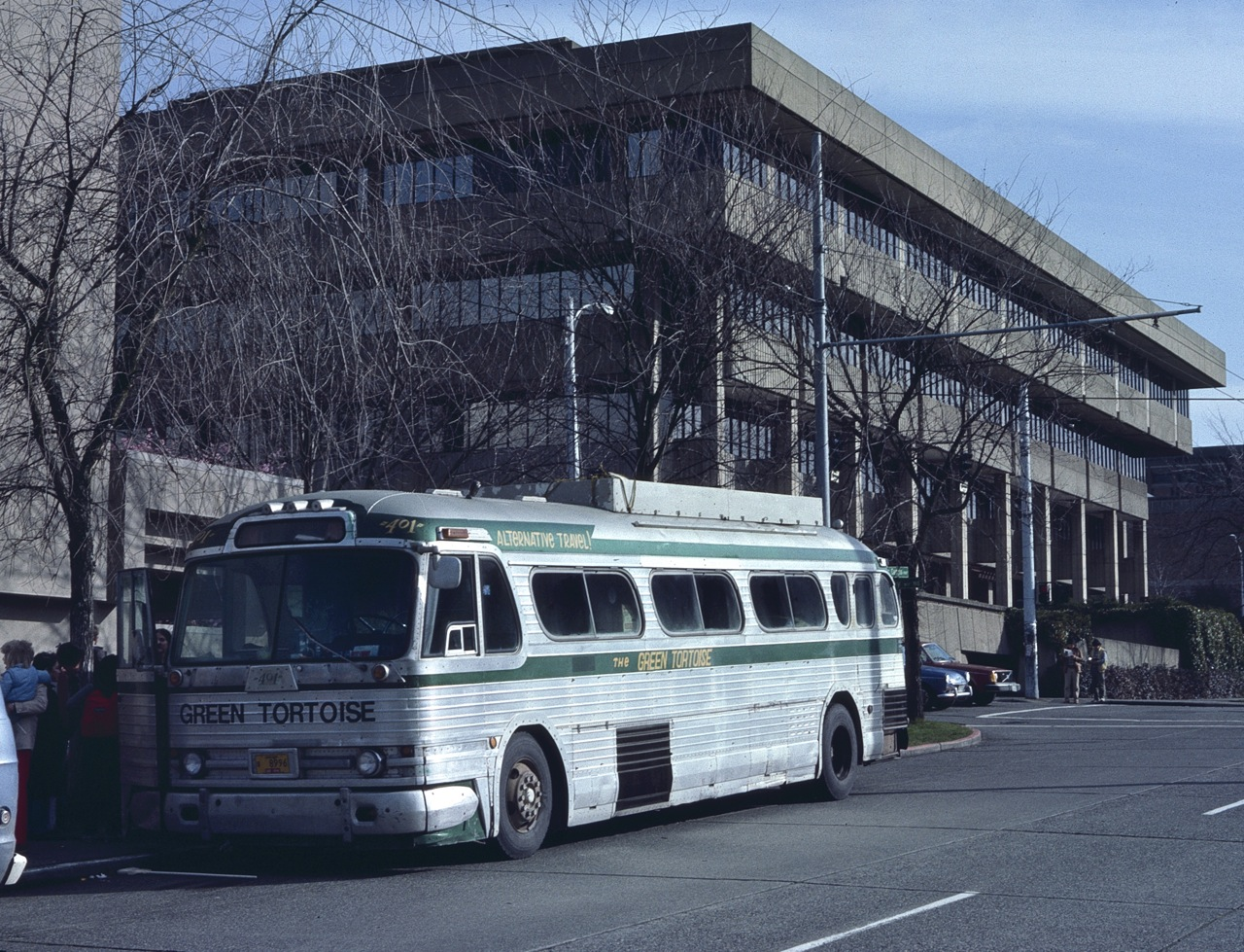 A Green Tortoise bus loading in Seattle in 1984, on NE Campus Parkway, in the University District. Bus 401 is a General Motors PD-4104, a type of bus that was in production from 1953 to 1960. Green Tortoise (founded in 1973) acquired this one used/secondhand. The building in the background is Schmitz Hall, of the University of Washington.